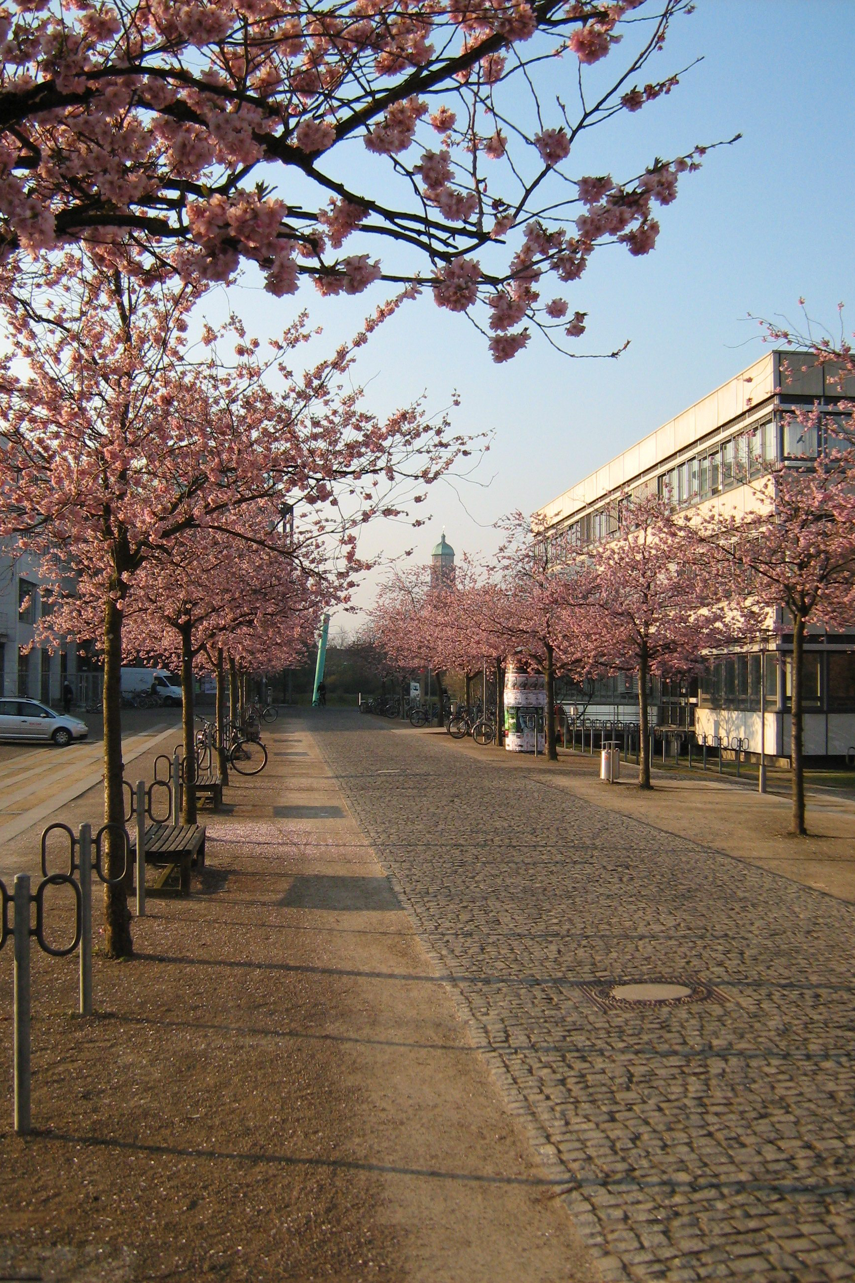 Spring at Göttingen university campus flowering cherries.